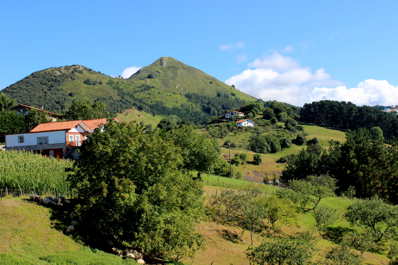 Itziarko baserriak eta Andutz mendia-2020ko Abuztua Irudi hau Wikibizi kanpainaren baitan igo da, Euskal Wikilarien Kultura Elkarteak 2020an deitutako argazki lehiaketa hirukoitza. Helburua, Euskal Herria hobeto ezagutzen laguntzea da.Lagundu zuk ere irudi hau dagokion artikuluetan txertatzen.